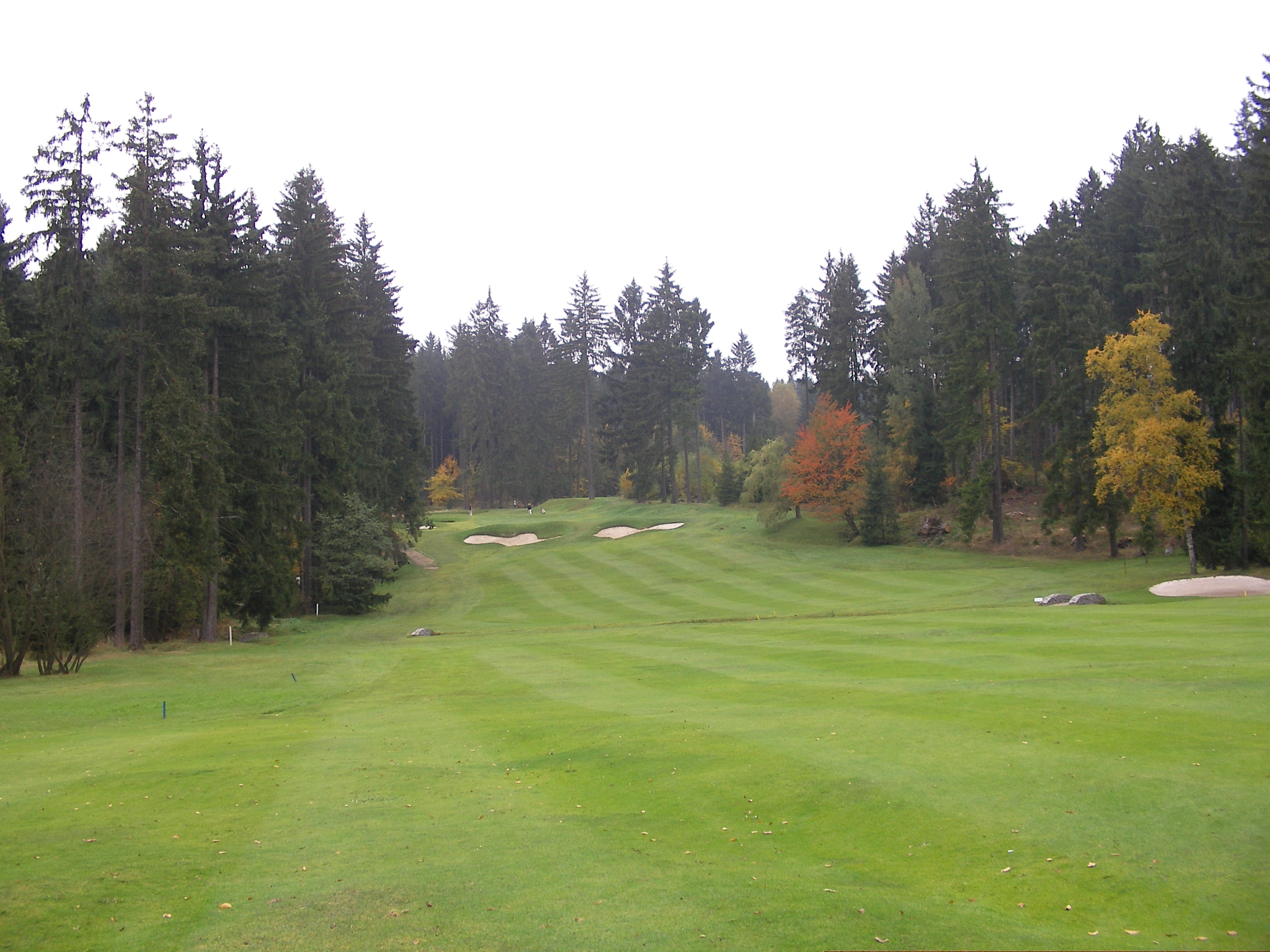 7th Hole, Royal Marianske Lazne Golf Course, Mariánské Lázně, Czech Republic.